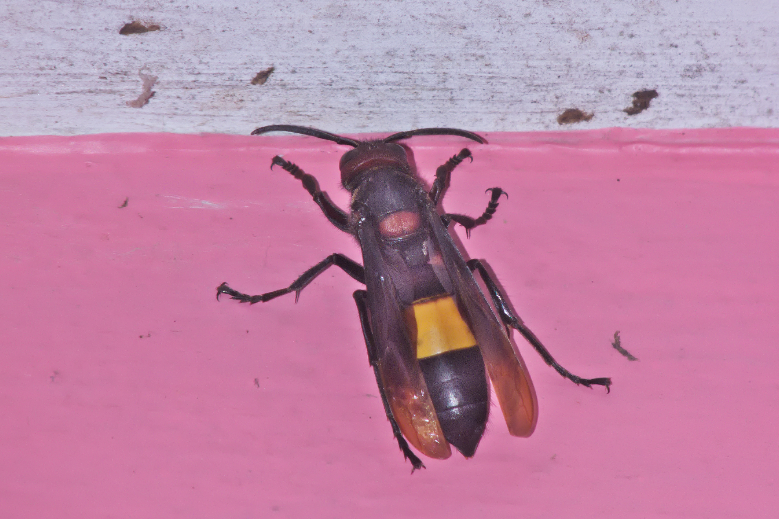 Vespa tropica, Greater Banded Hornet, is a tropical species of hornet found in Southeast Asia, and commonly found in West Africa, from Afghanistan to New Guinea. It is medium in size; the worker's length is of about 25 mm. The head is dark brown/red; the abdomen is black with a large yellow stripe. Predation by V. tropica is one of the foremost causes of colony failure in P. chinensis. V. tropica may play a significant role in controlling Asian polistene populations. This species is known to attack the nests of Polistines (paper wasps) in order to obtain the larvae to feed their own larvae. The nest of Vespa tropica is usually underground or in a tree hollow or similar enclosed space. Due to the location, the nest is seldom seen. If excavated, the nest usually appears rhomboid or bowl-shaped, with an open bottom (as opposed to the completely sealed nests of most aerial hornets). The nest envelope is laminar (comprising of distinct, broad individual layers) and very brittle. Vespa tropica can be distinguished from Vespa affinis by its larger size and the distribution of the yellow band on the abdomen; the yellow band covers the first and second segments in Vespa affinis, but only the second in Vespa tropica. (ID by Sankararaman Harihara Krishnan and Girish Kumar)